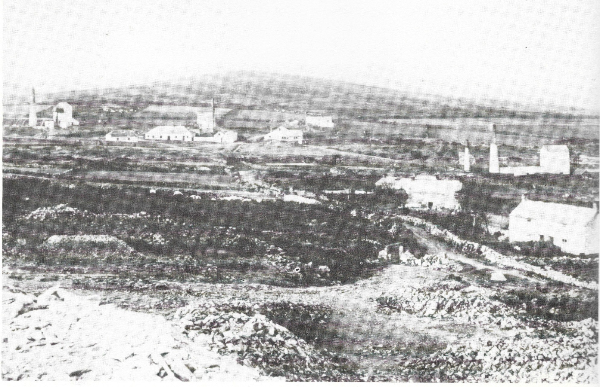 Great Work Mine, photographed from Tregonning hill in the late 19th Century, by an unknown photographer. Leeds shaft visible at the far left. The visible track that starts in the foreground is 'Granny Polly Lane'.